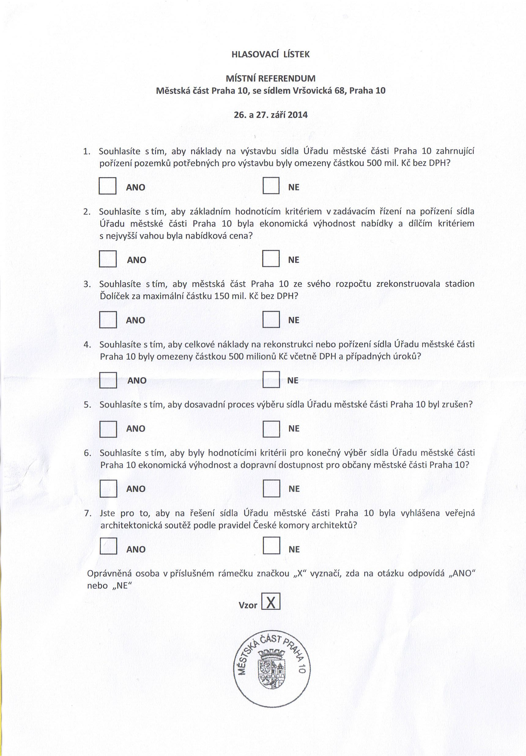 Voting paper, local referendum in Praha 10, Czech Republic.